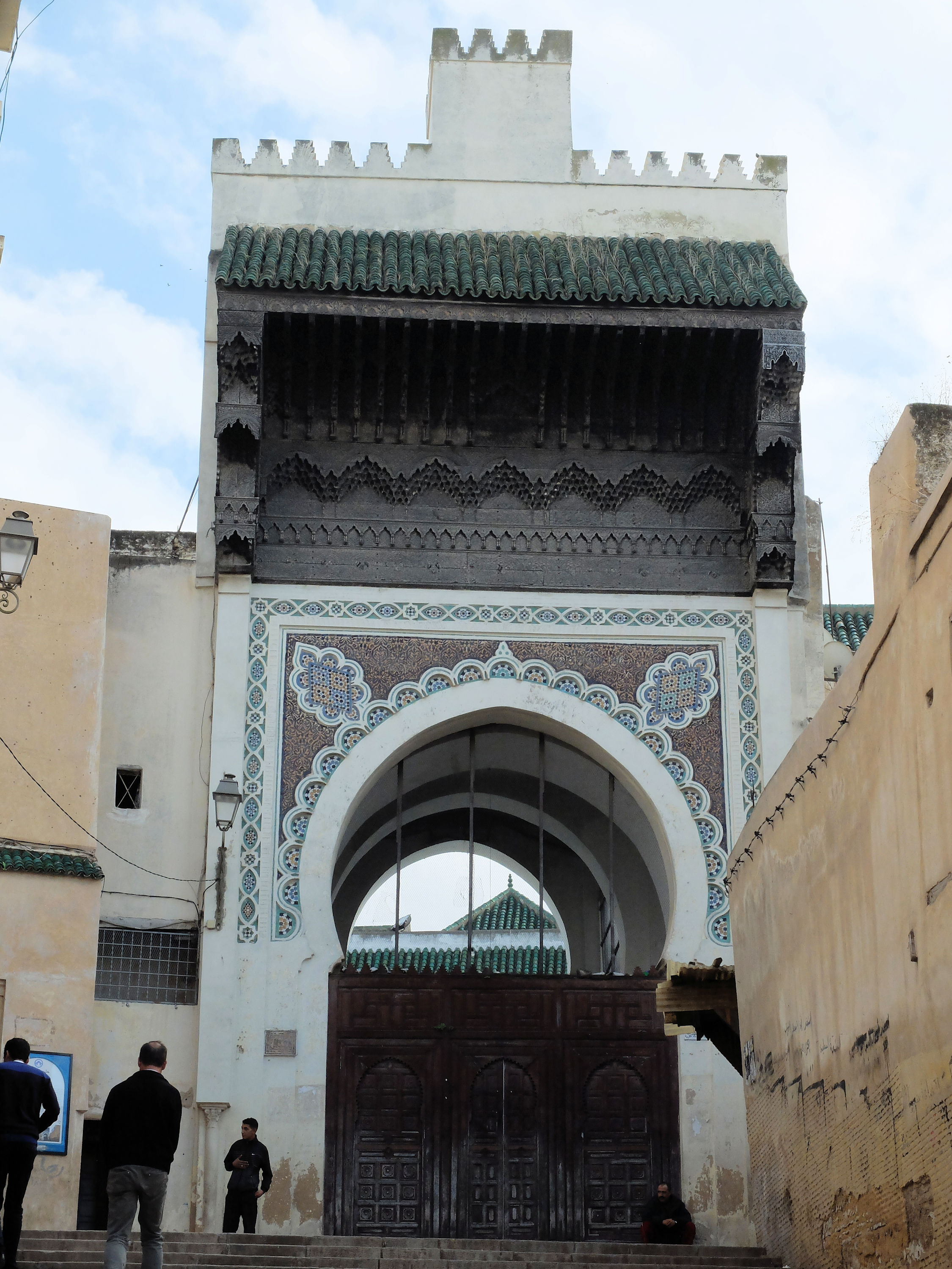 Main entrance portal of the al-Andalus Mosque (or Mosque of the Andalusians), Fes.